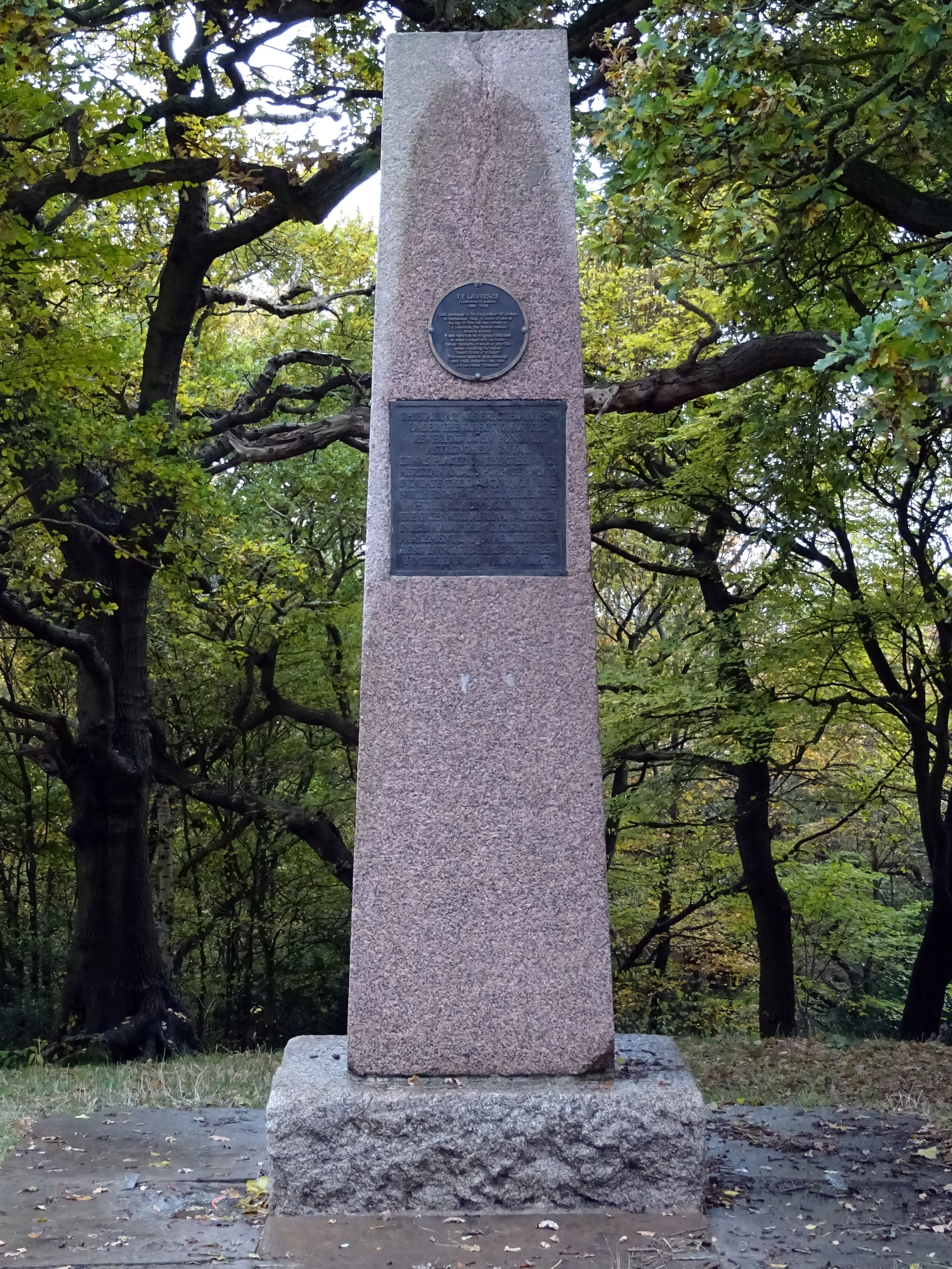 Pole Hill Obelisk, Epping Forest Public Space Chingford